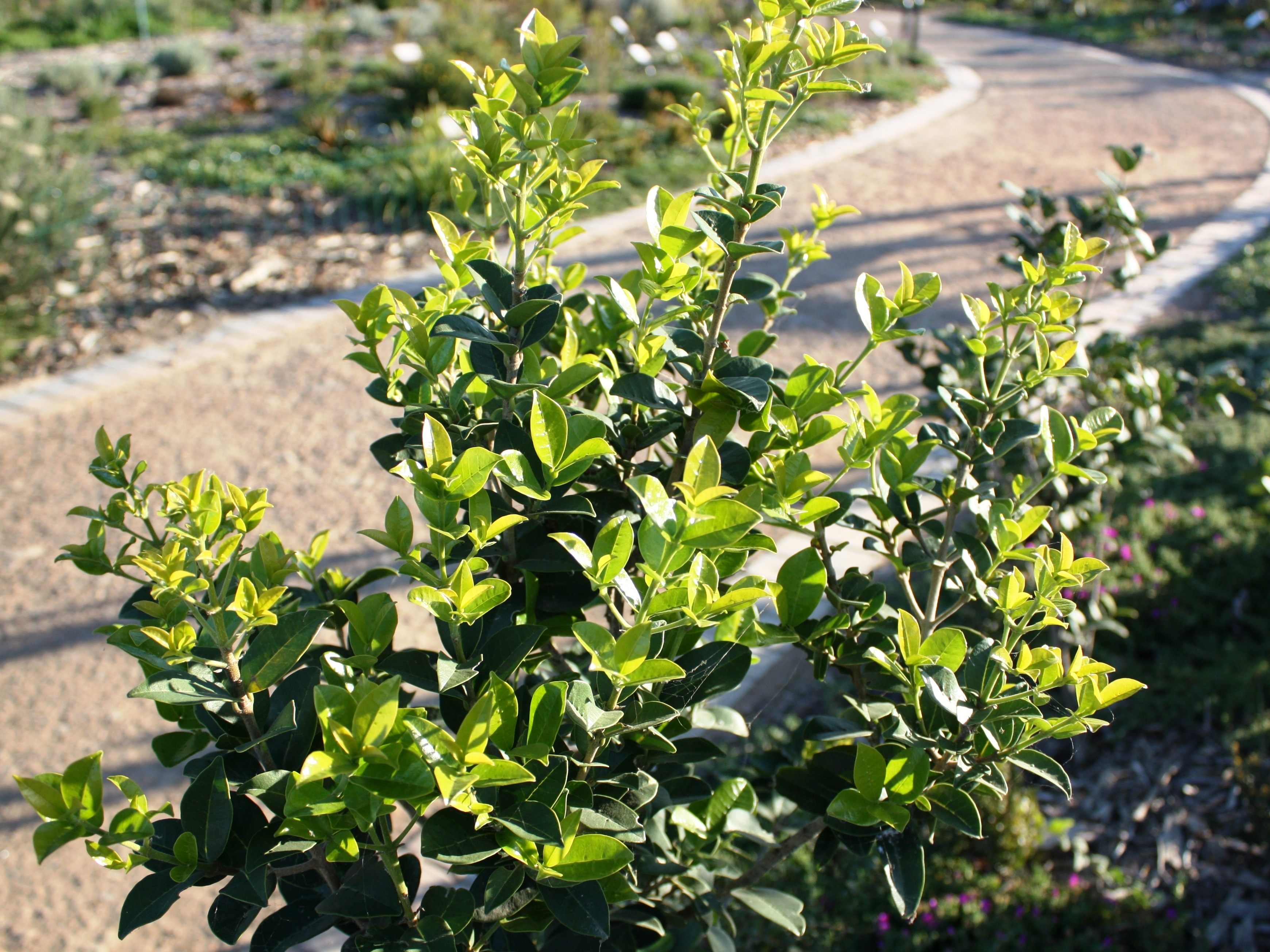 Detail of foliage of a young Pock Ironwood tree. Cape Town.